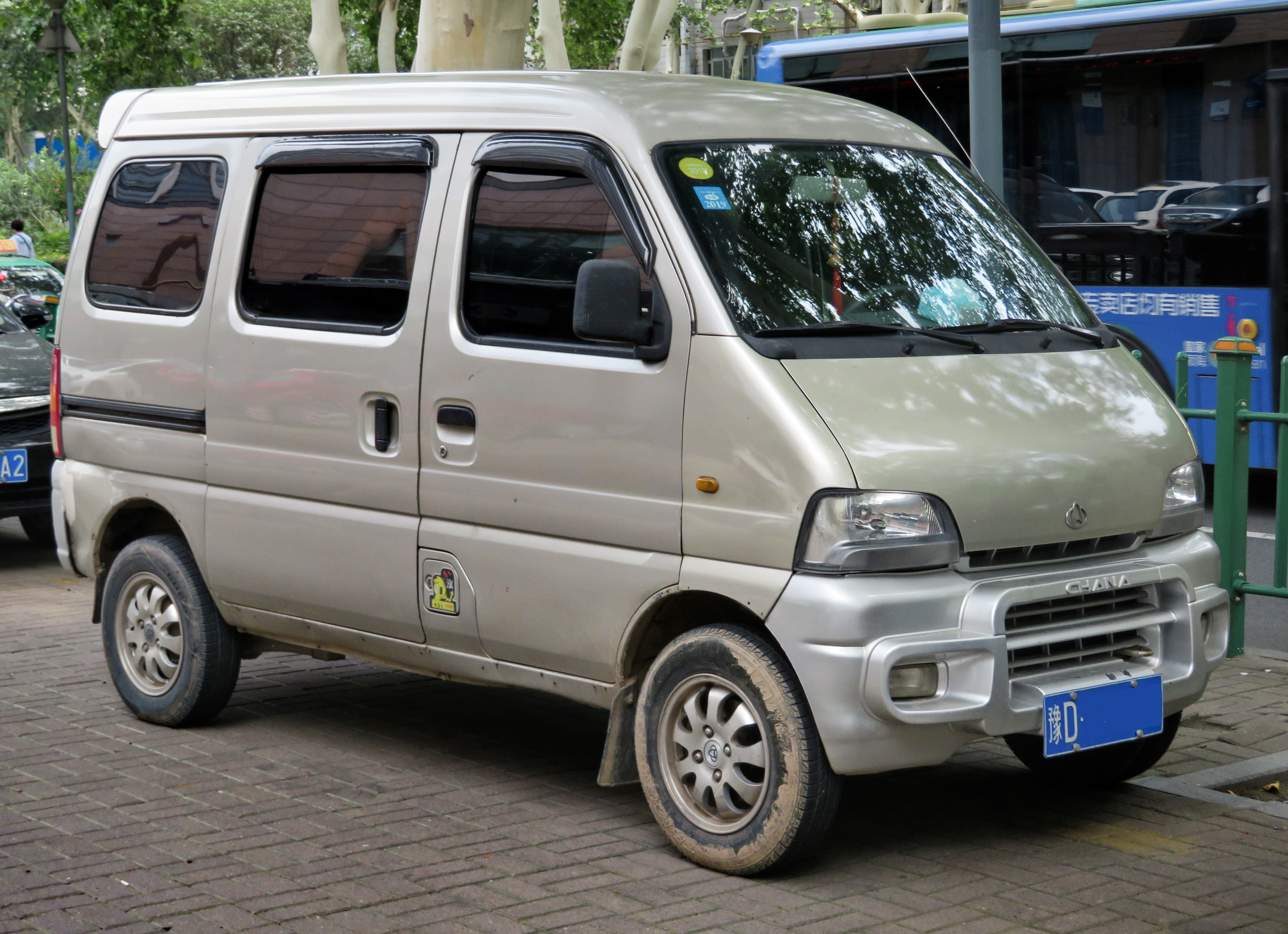 A 2007 Chang'an (Chana) Star SC6371 photographed in Xigong District, Luoyang, Henan province, China